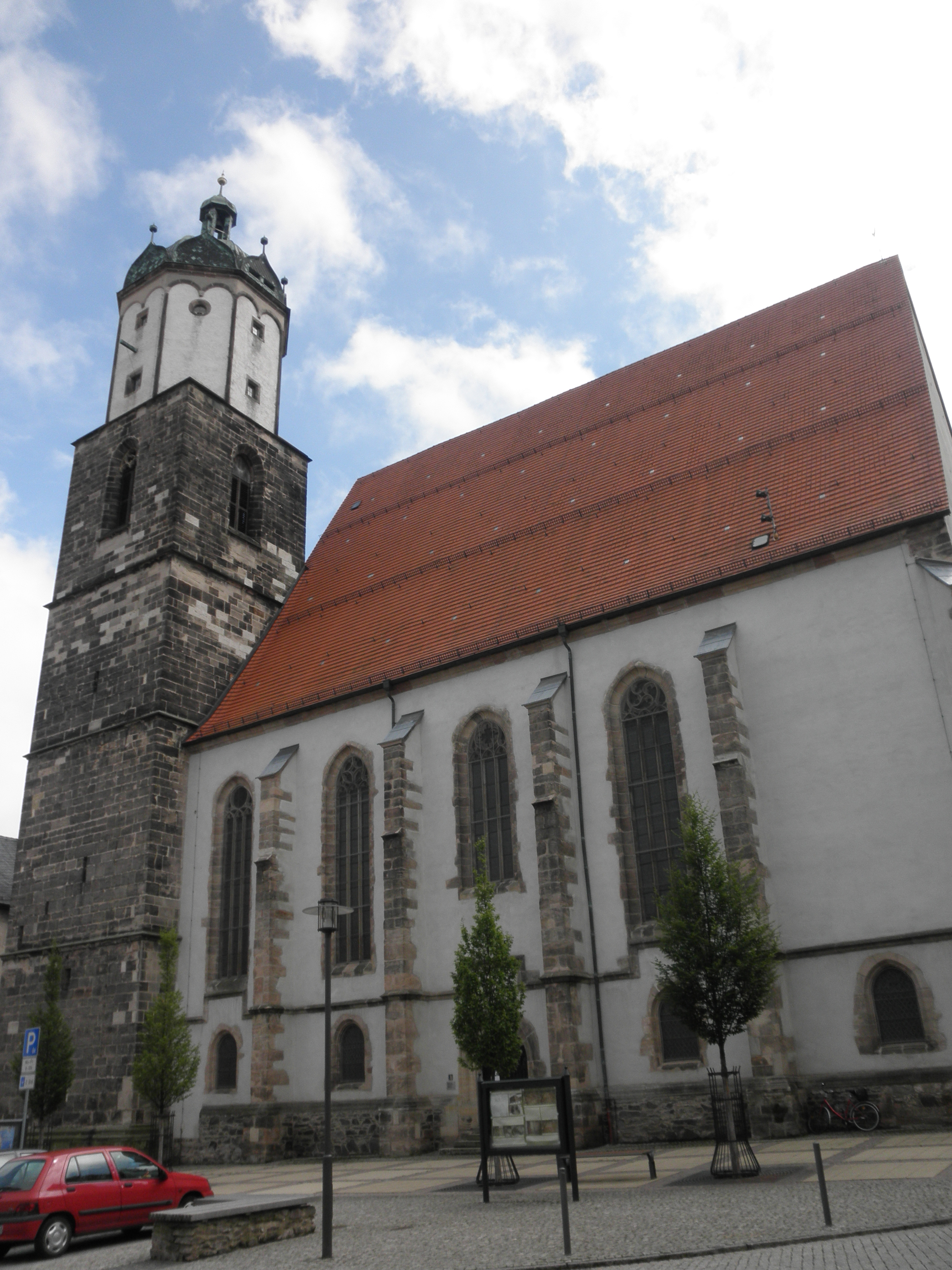 Church in Neustadt an der Orla in Thuringia